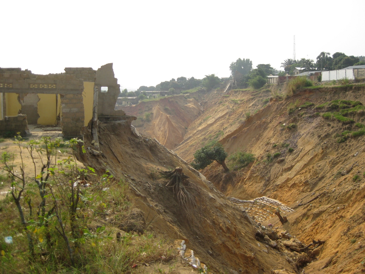 Erosion in the Cité Mama Mobutu in July 2009, due to lack of maintenance Érosion à la Cité Mama Mobutu en juillet 2009 dû au manque d’entretien